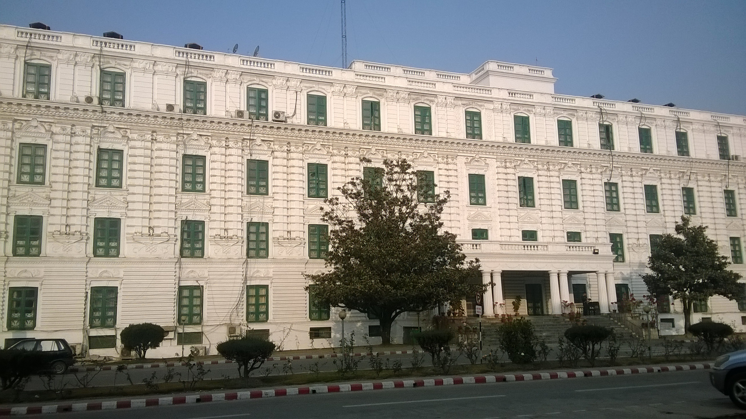 Primeminister's Office in Singha Darbar.